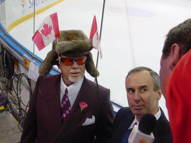 Salt Lake City 2002 Winter Olympics Flashback series featuring adventures of Dave Thorvald and Dan Funboy.